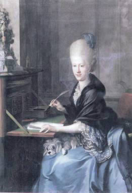 Portrait of Princess Charlotte of Saxe-Meiningen (1751-1827)